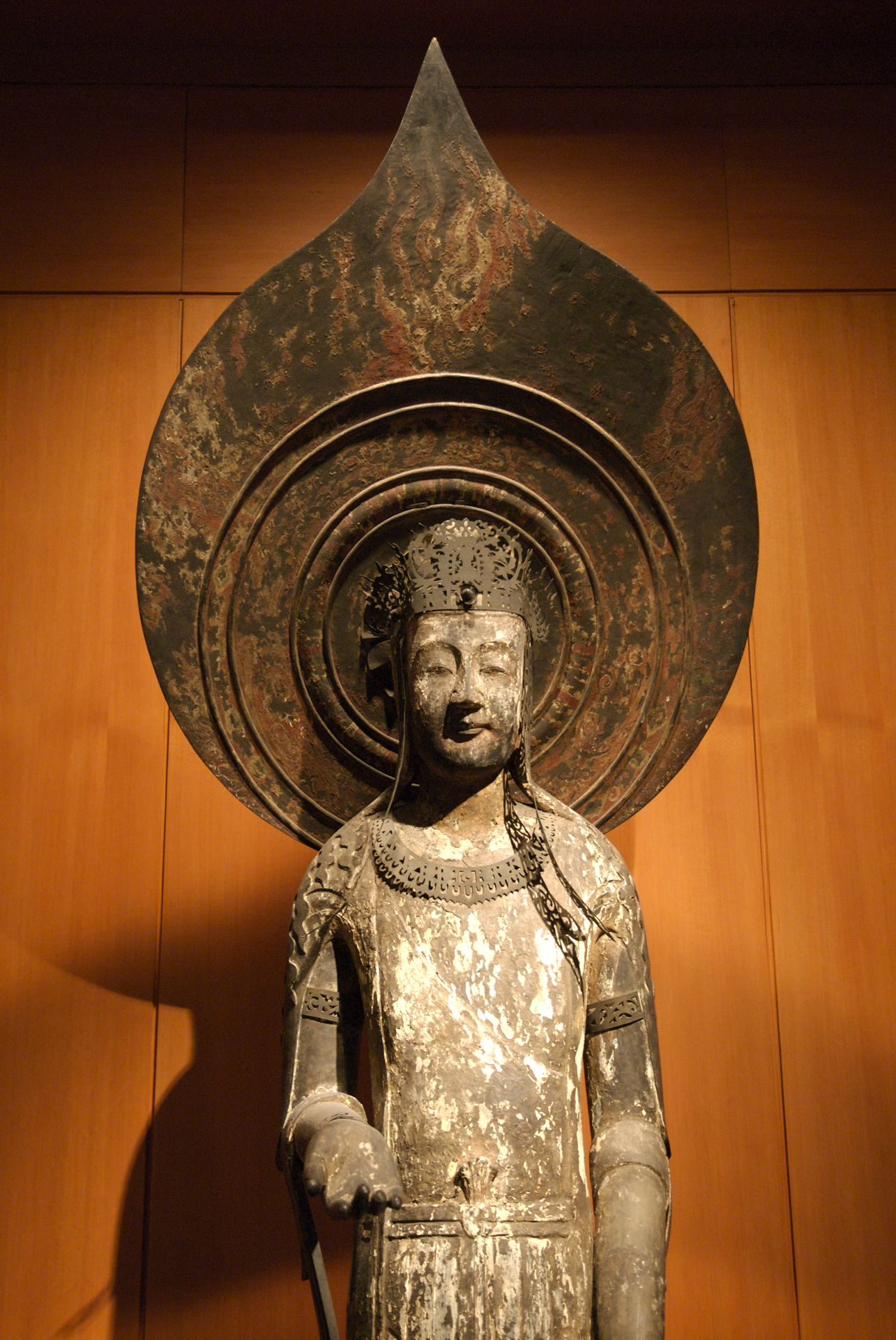 A replica of the Kudara Kanon (literally Paekche Avolikitesvara) (the original in the Hōryūji temple, Nara) at the British Museum. Asuka period (ca. 552-ca. 650). Made of carved and painted wood, gesso, also bronze; H : 3,1 m. The original may possibly be from Korea or carved by immigrant Korean artisans. Page of the British Museum : [1]